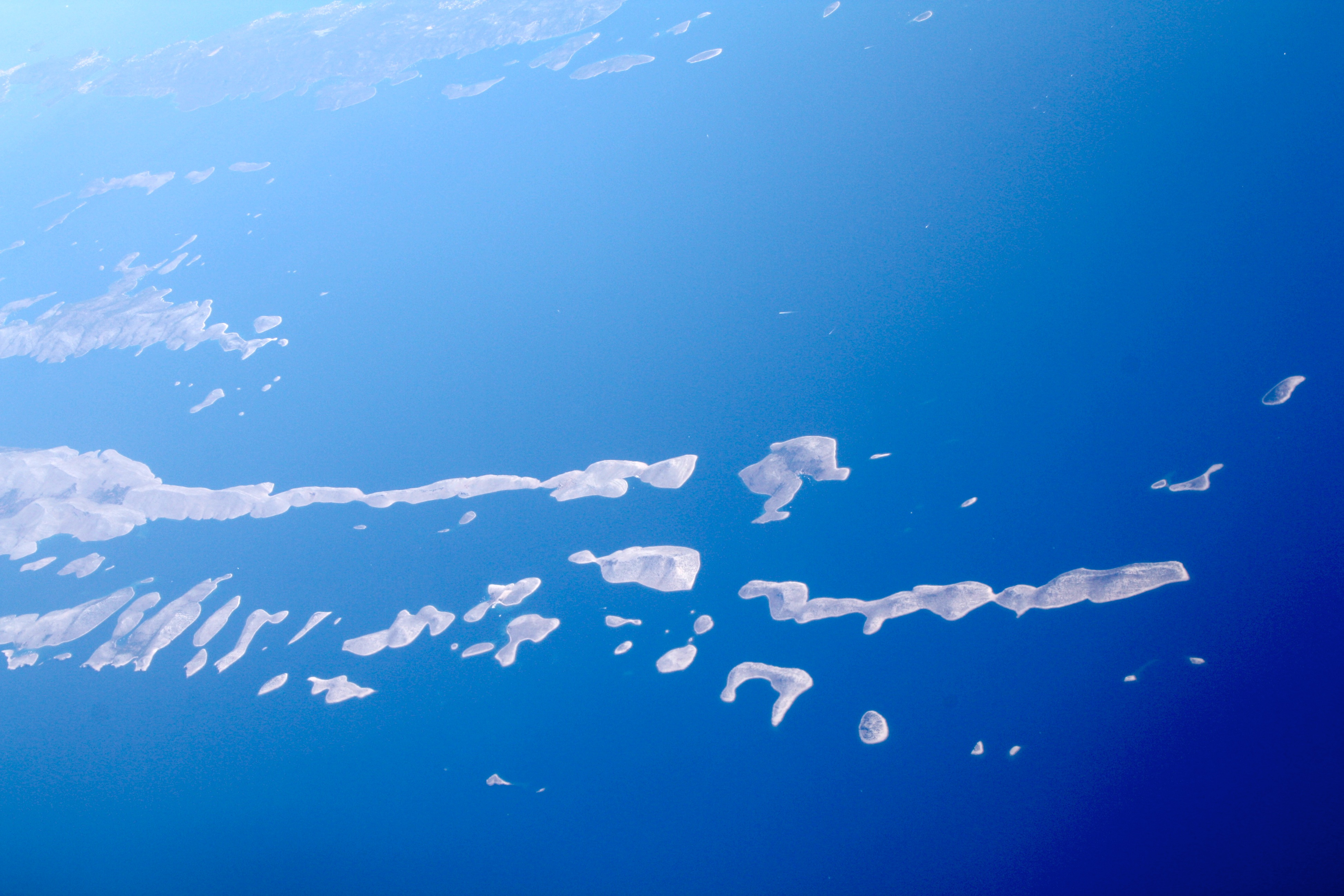 Kornati islands, Croatia